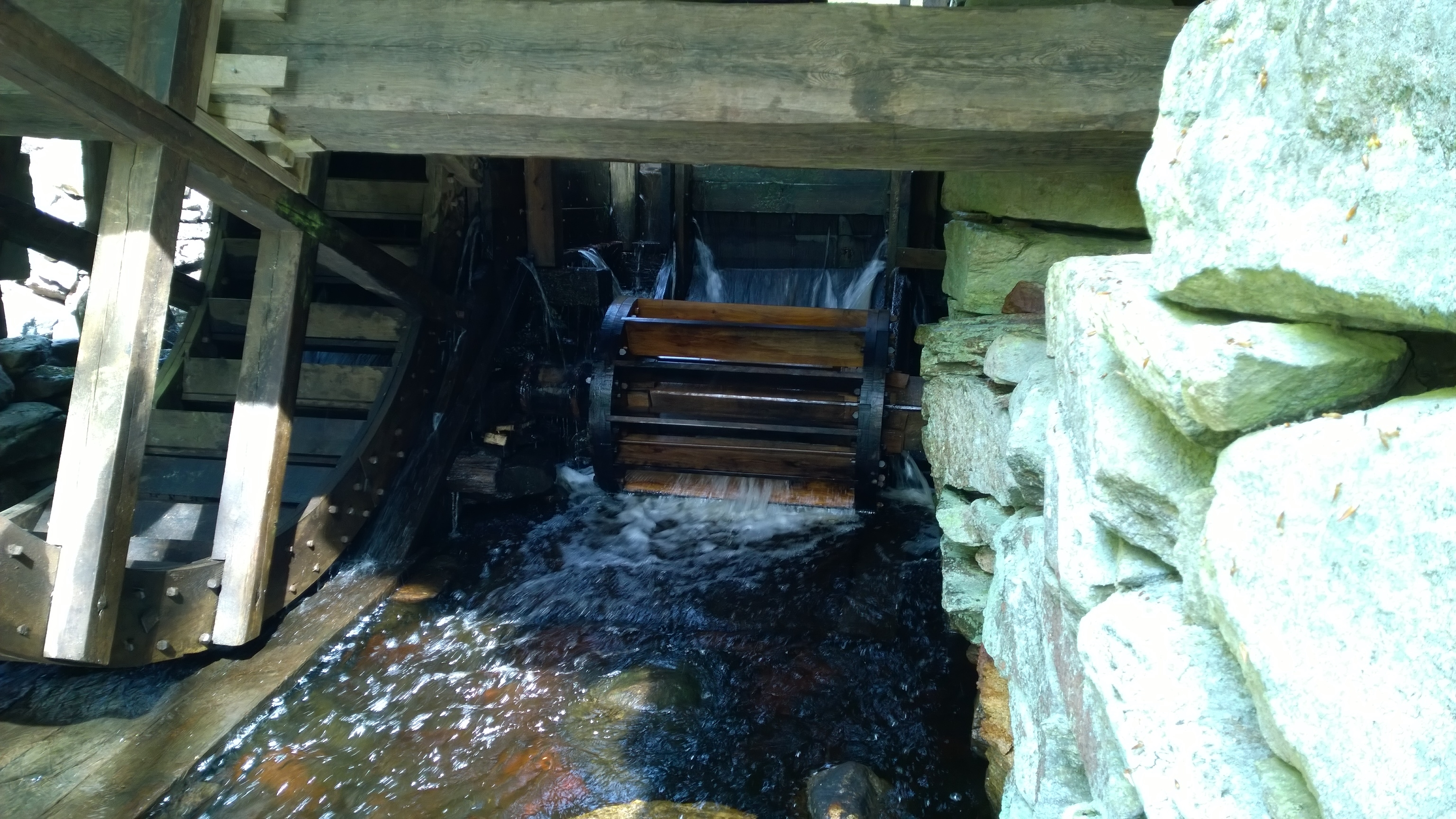 The small wheel operates the saw or the plane that makes roofing shingles.